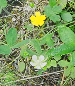 Even though Grass-of-Parnassus and buttercups are not at all related, they bear more than a passing appearance except for their color. Ø2004 D. Windrim Captioned As {}